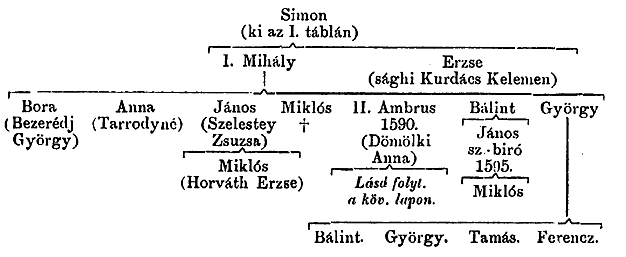 Chernel family tree IV.